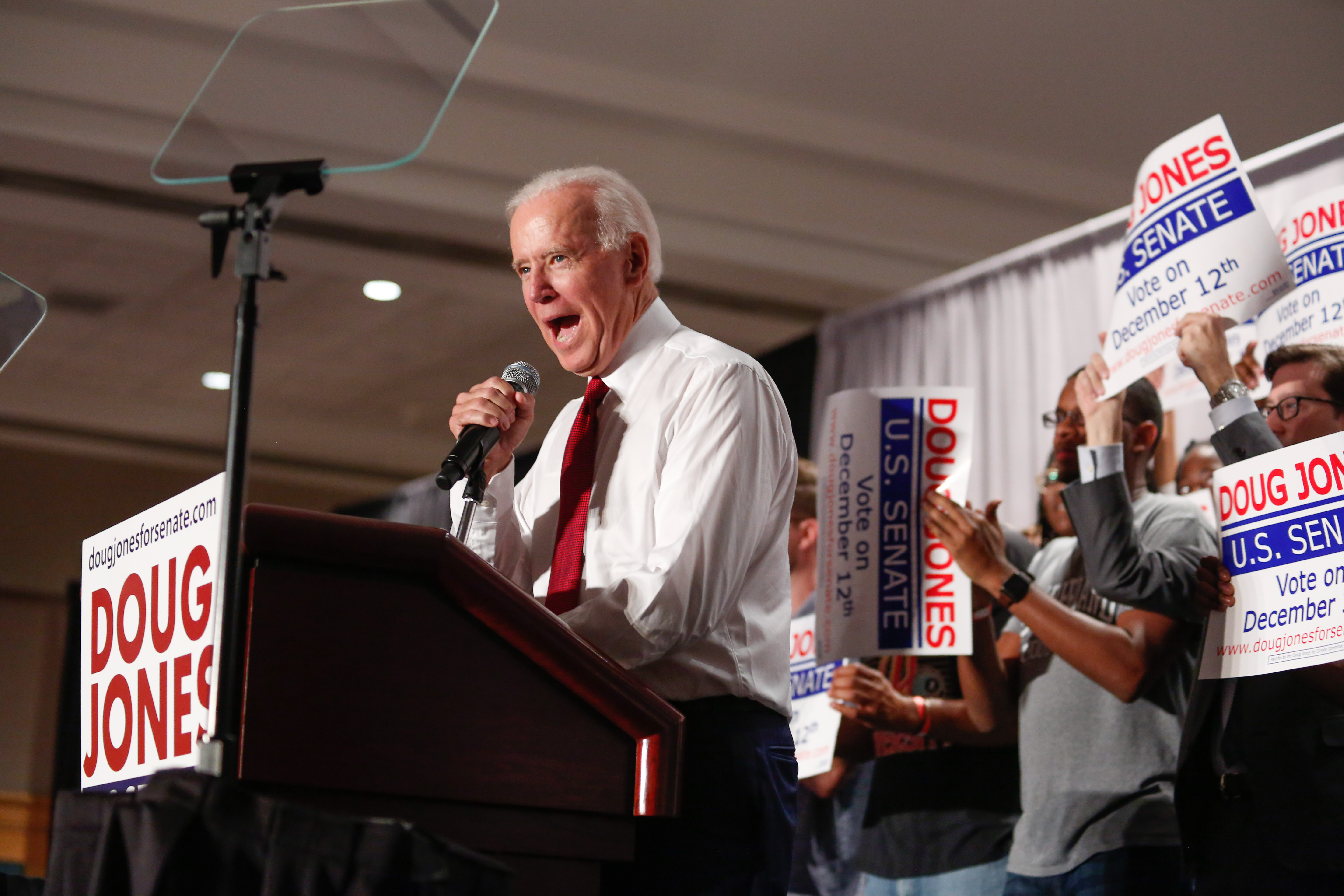 Vice President Joe Biden speaks of Doug Jones chasing the KKK to the gates of hell.